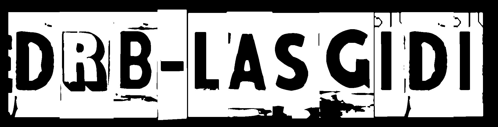 DRB LOGO